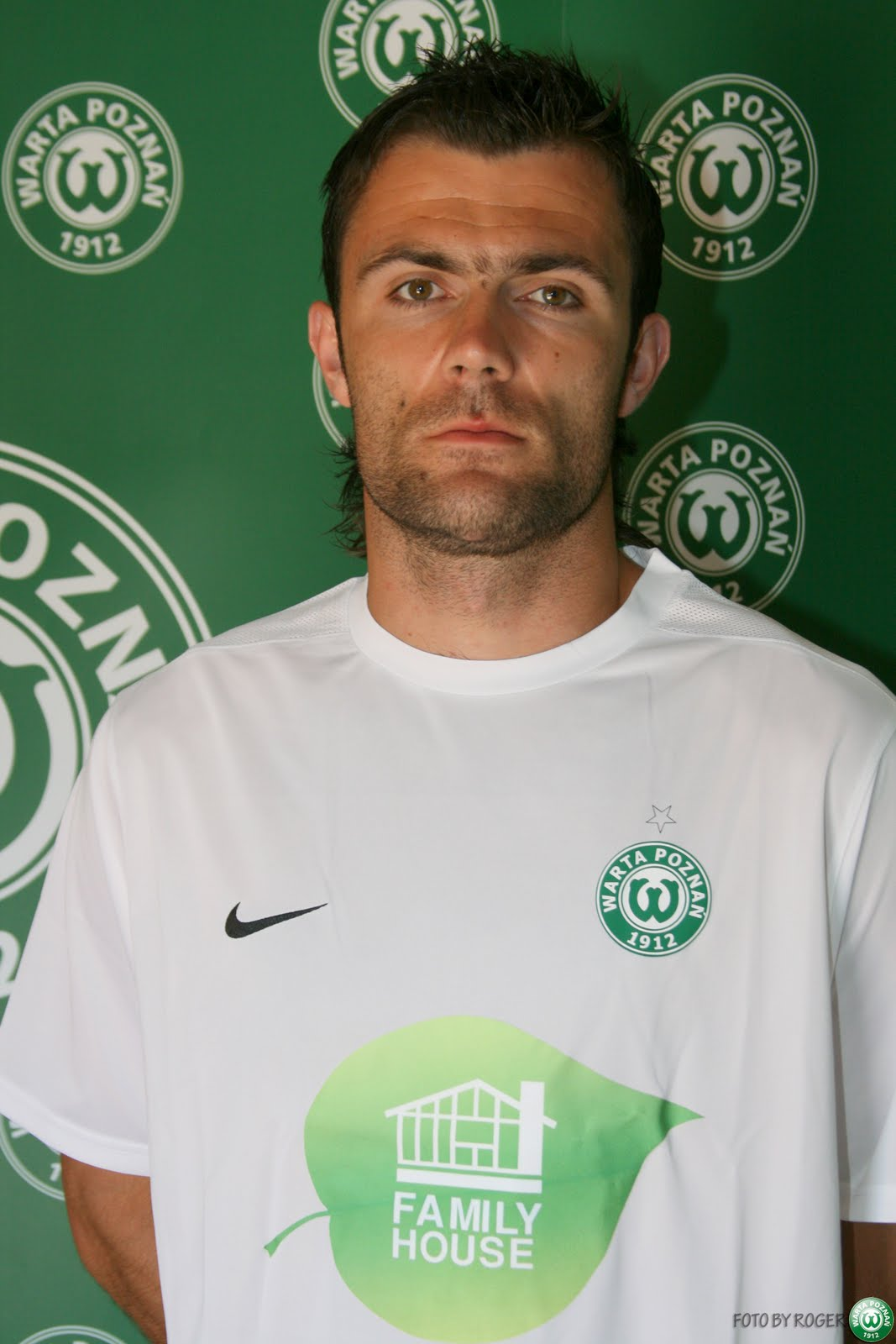 Polish football player Krzysztof Sobieraj